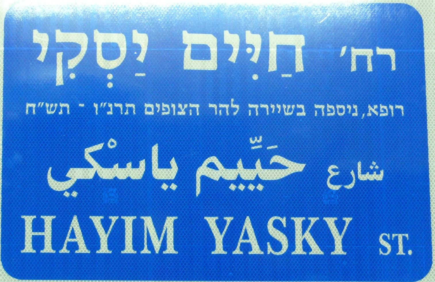 Jerusalem Street Sign in honor of Dr. Haim Yassky who fell during the Hadassah medical convoy massacre